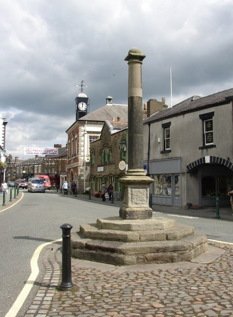 The Market Cross, Garstang The town was permitted to hold a market in 1310, and this right has lapsed and been renewed from time to time. There is now a market of about 70 salls every Thursday, and the town has the tilte of the World's first FairTrade town.